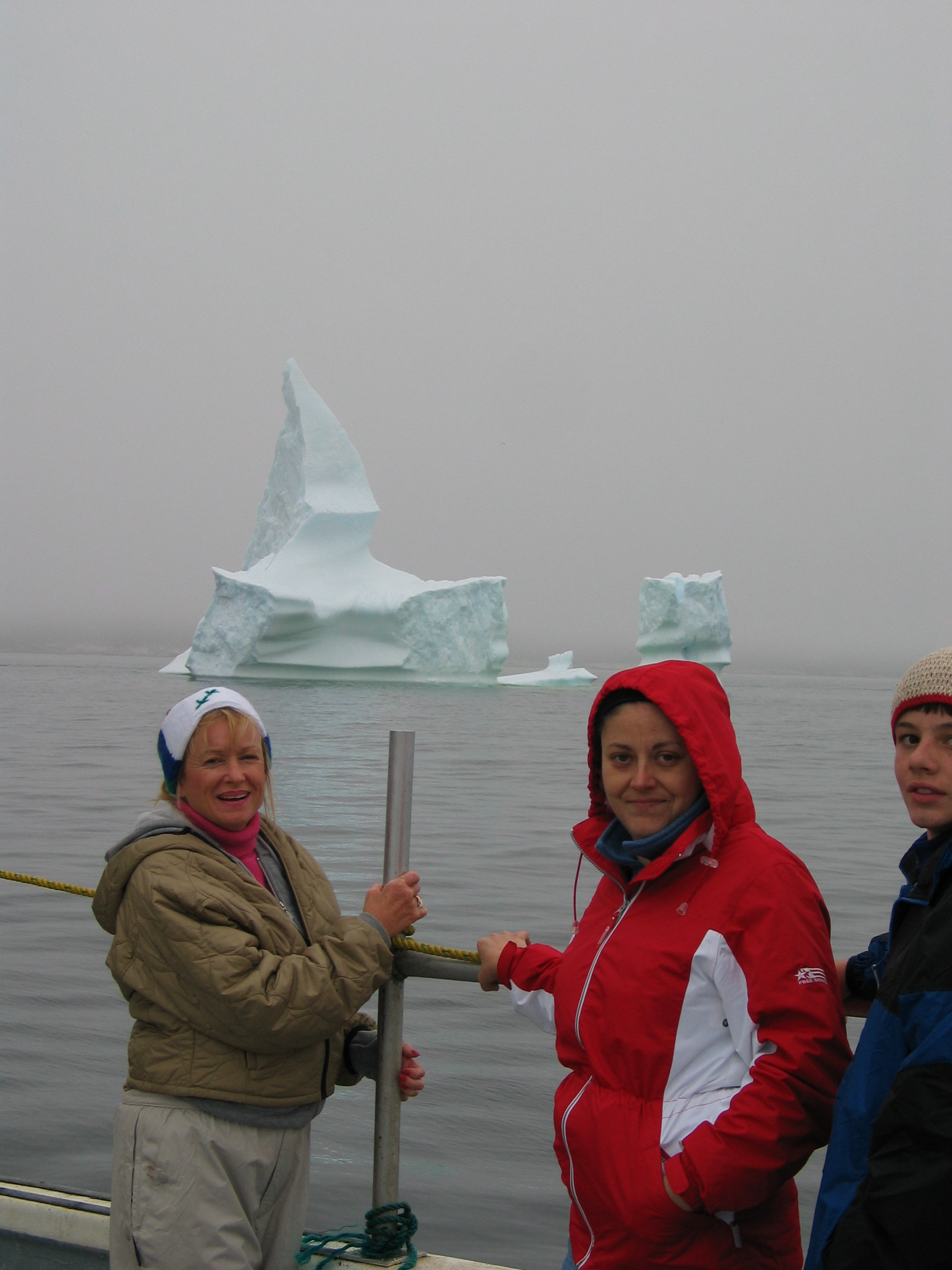 July 10, 2004. Iceberg viewing with local fisherman from Marys Harbour. Dr. Mary Beth Throneberry, Beth and Luke Throneberry.